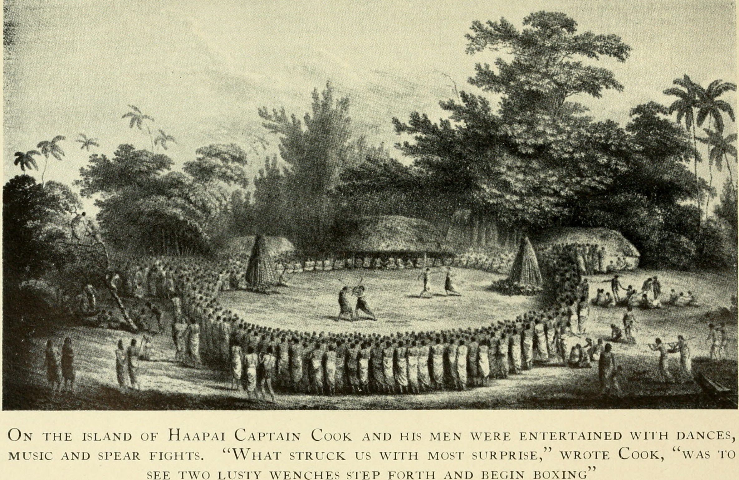 Title: Captain Cook, navigator and discoverer Year: 1930 (1930s) Authors: Thiéry, Maurice; Street, Cecil J. C. (Cecil John Charles), 1884-1964 Subjects: Cook, James, 1728-1779 Publisher: New York, R. M. McBride & company Text Appearing Before Image: ' Text Appearing After Image: '